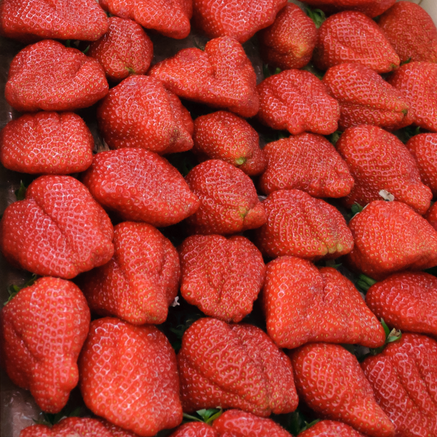 Strawberries on sale in the Rungis International Market, France.